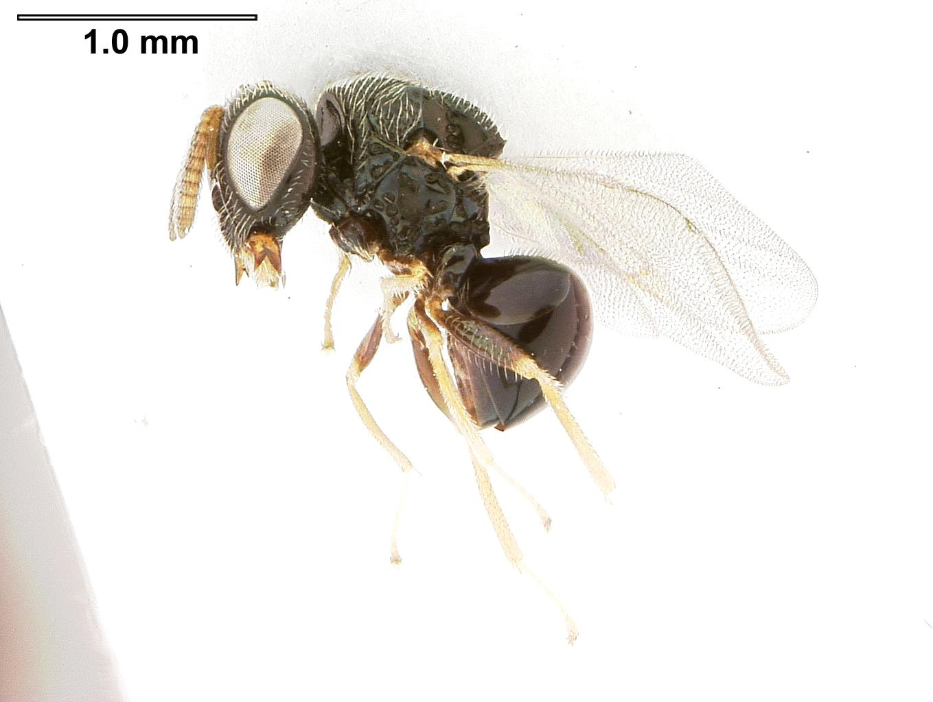 Chalcid wasp